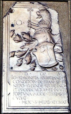 Renaissance gravestone in the cloister of Santa Maria delle Grazie church in Milan, Italy, bearing the coats of arms and the epitaph for Giovanni Simonetta, a member of the cabinet of the Duke of Milan.